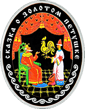 Belarus and the global community. Commemorative Coin "The Golden Cockerel"